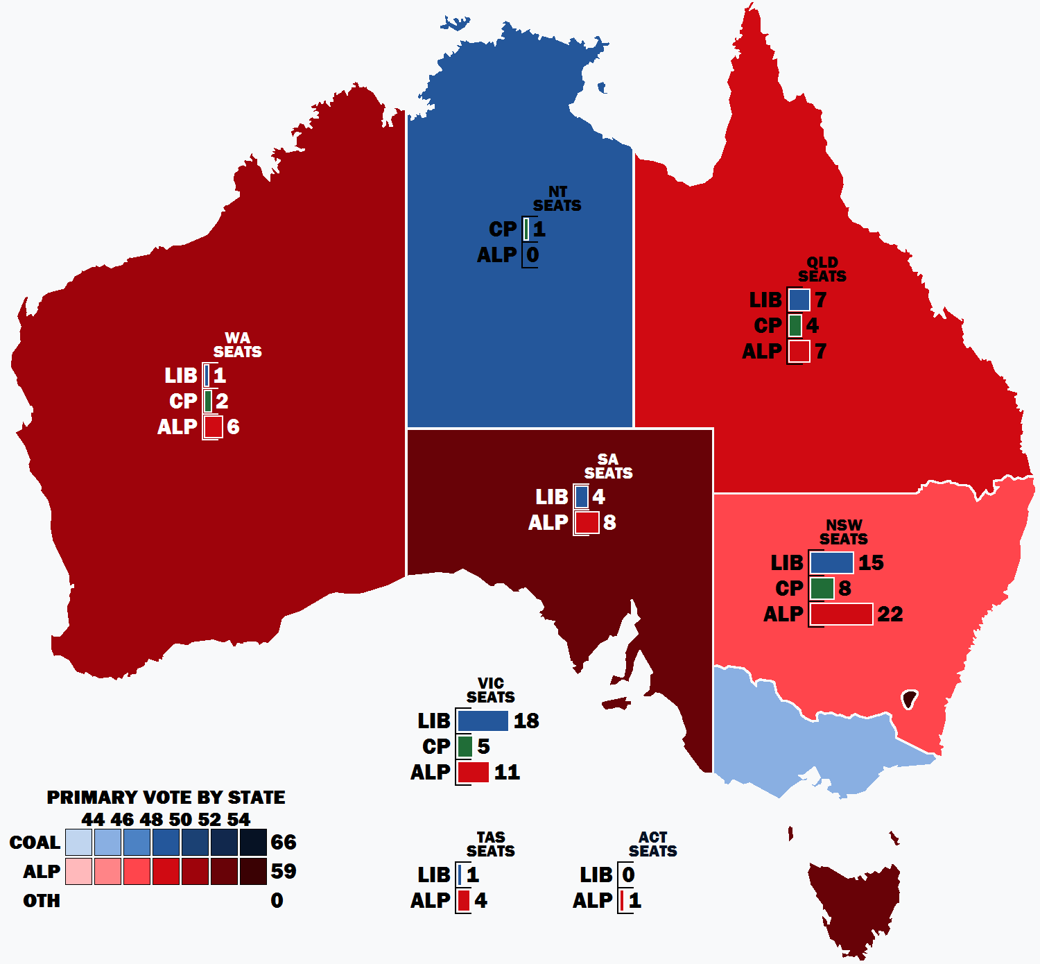 Result of the primary vote by state and territory in the 1969 Australian federal election.